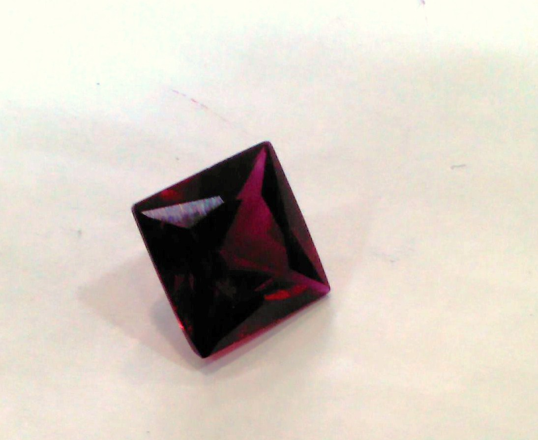 Synthetic ruby. Each side: 12.5 mm.